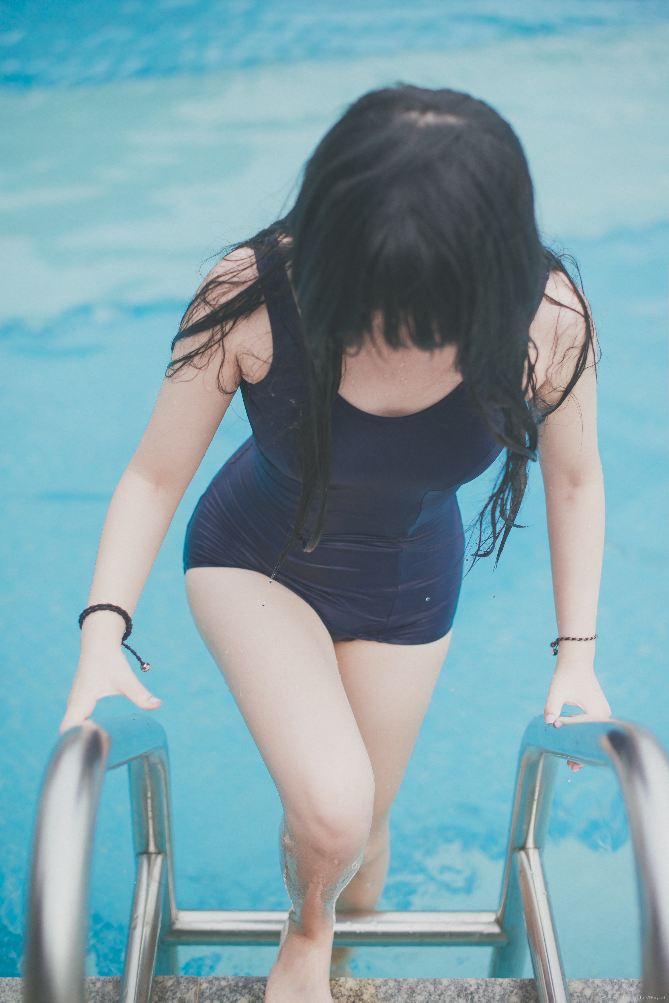 Female wearing one-piece swimsuit in Japan